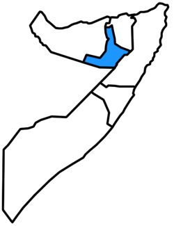 Location of Khatumo State, formerly the Northland State of Somalia